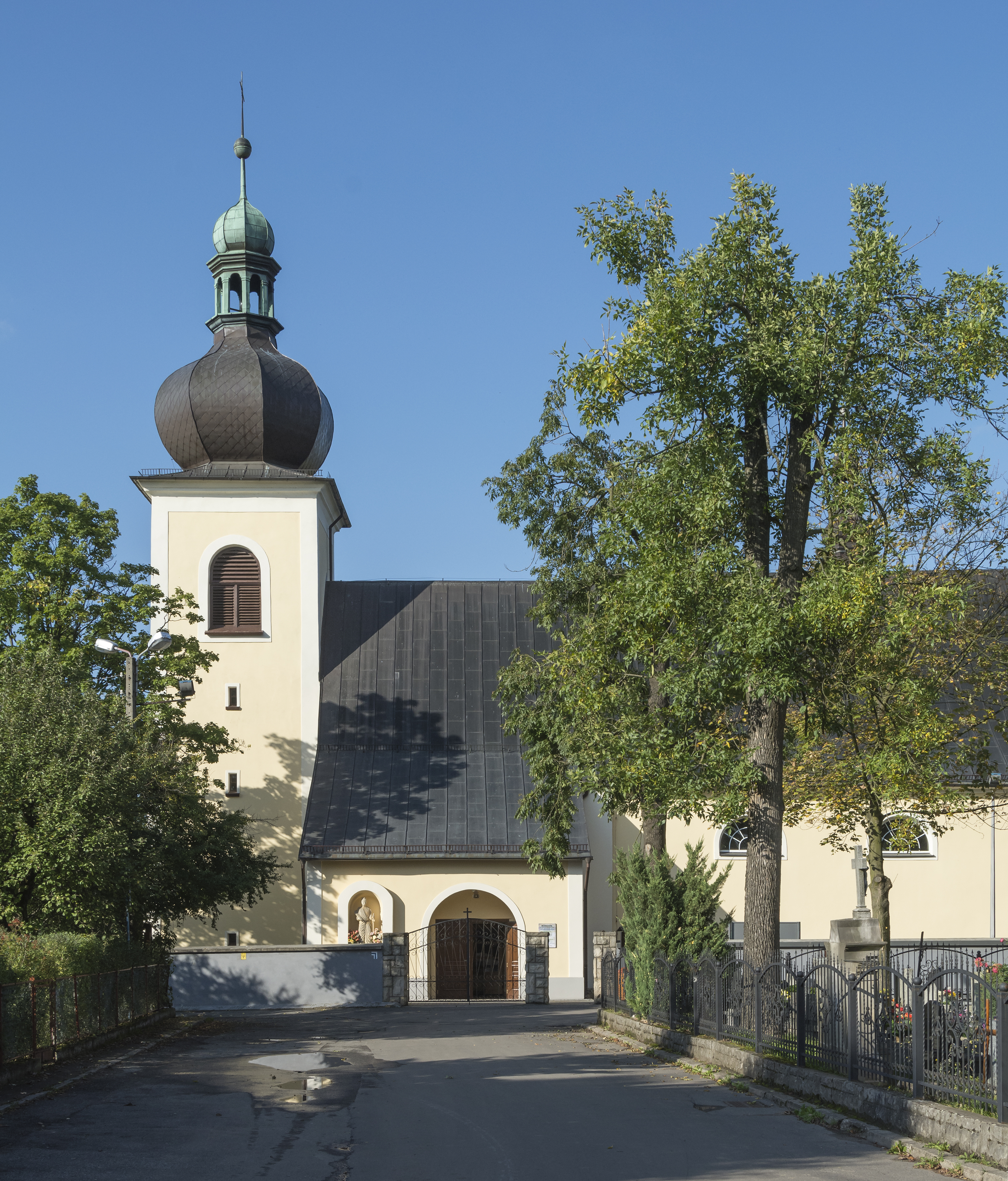 Church of Sts. Catherine in Kudowa-Zdrój